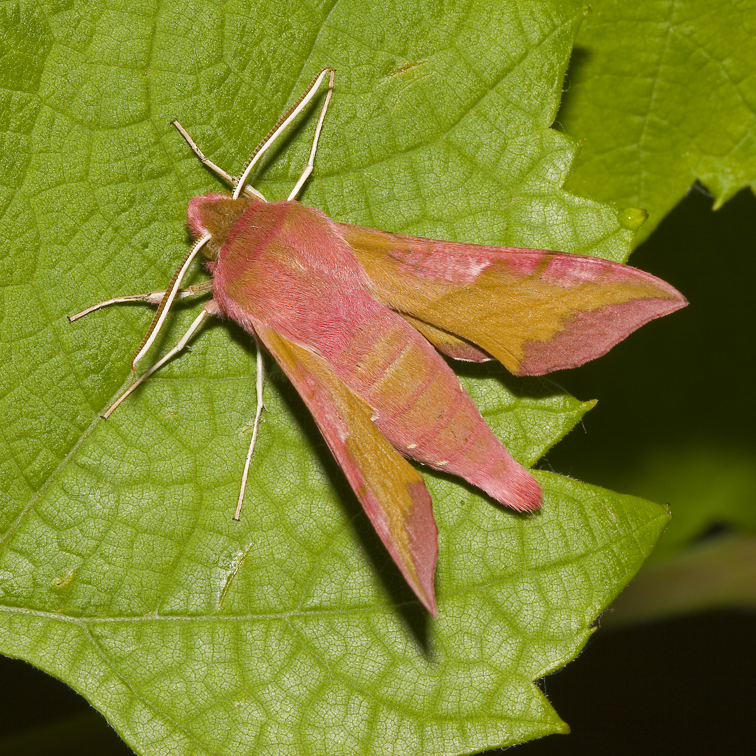 Small Elephant Hawk-moth, Deilephila porcellus (Linnaeus, 1758)